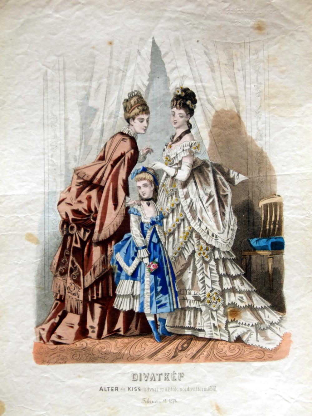 Historical Fashion Images of Alter és Kiss Designs